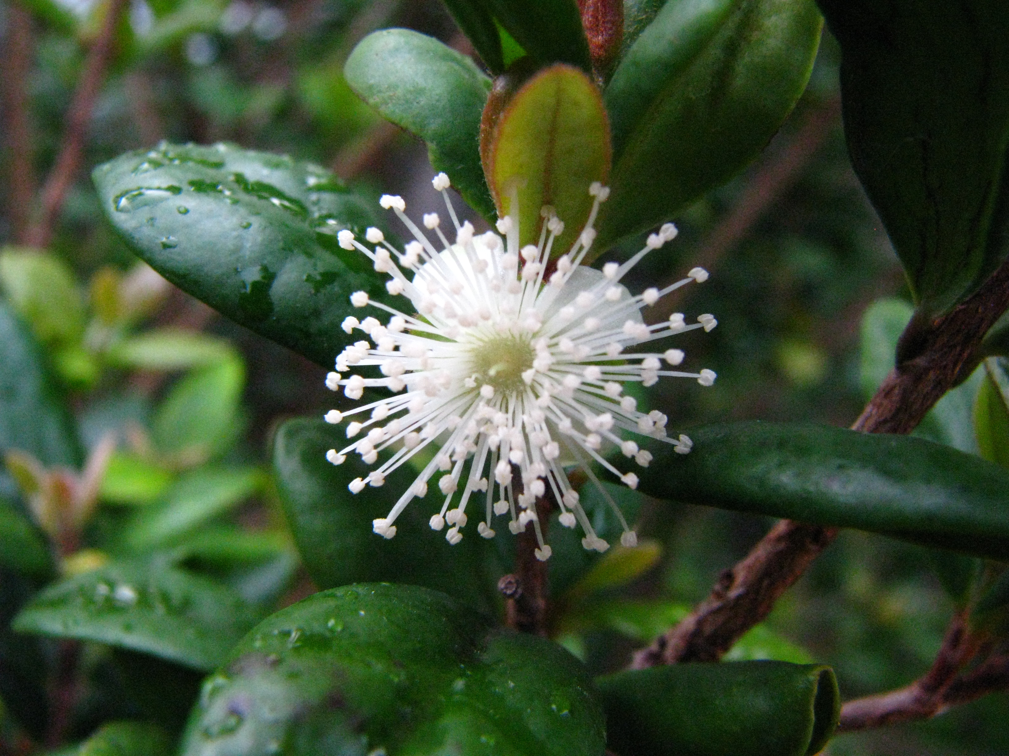 Nīoi or Koʻolau eugenia Myrtaceae Endemic to the Hawaiian Islands (Molokaʻi, extinct; Oʻahu, extant) Endangered Oʻahu (Cultivated) These are flowering and flowering and fruiting much earlier than in previous years. Nīoi may prove to year round bloomers, at least under cultivation. The entire flower, including the stamens, are about the size of a dime (10 cents US). The hard wood was fashioned into kapa (tapa) beaters by early Hawaiians. The fruits are edible and have a somewhat sweet to bland or bitter taste.